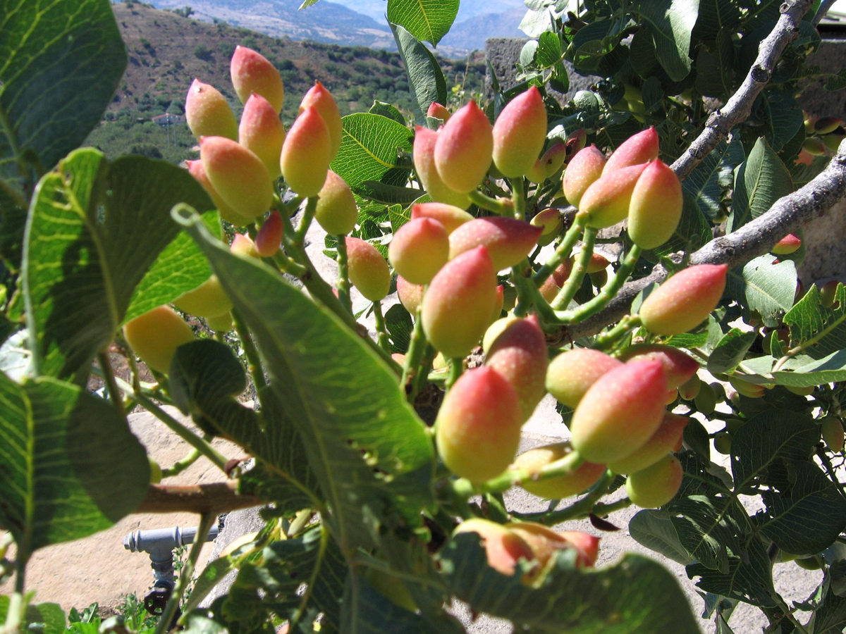 Pistacia vera - "Pistacchio Verde di Bronte"